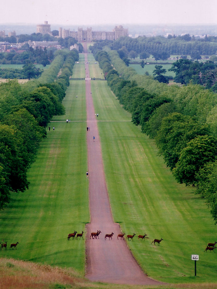 Windsor Great Park - Long Walk. (view from Snow Hill to Windsor Castle). Deer passing by on a quiet day